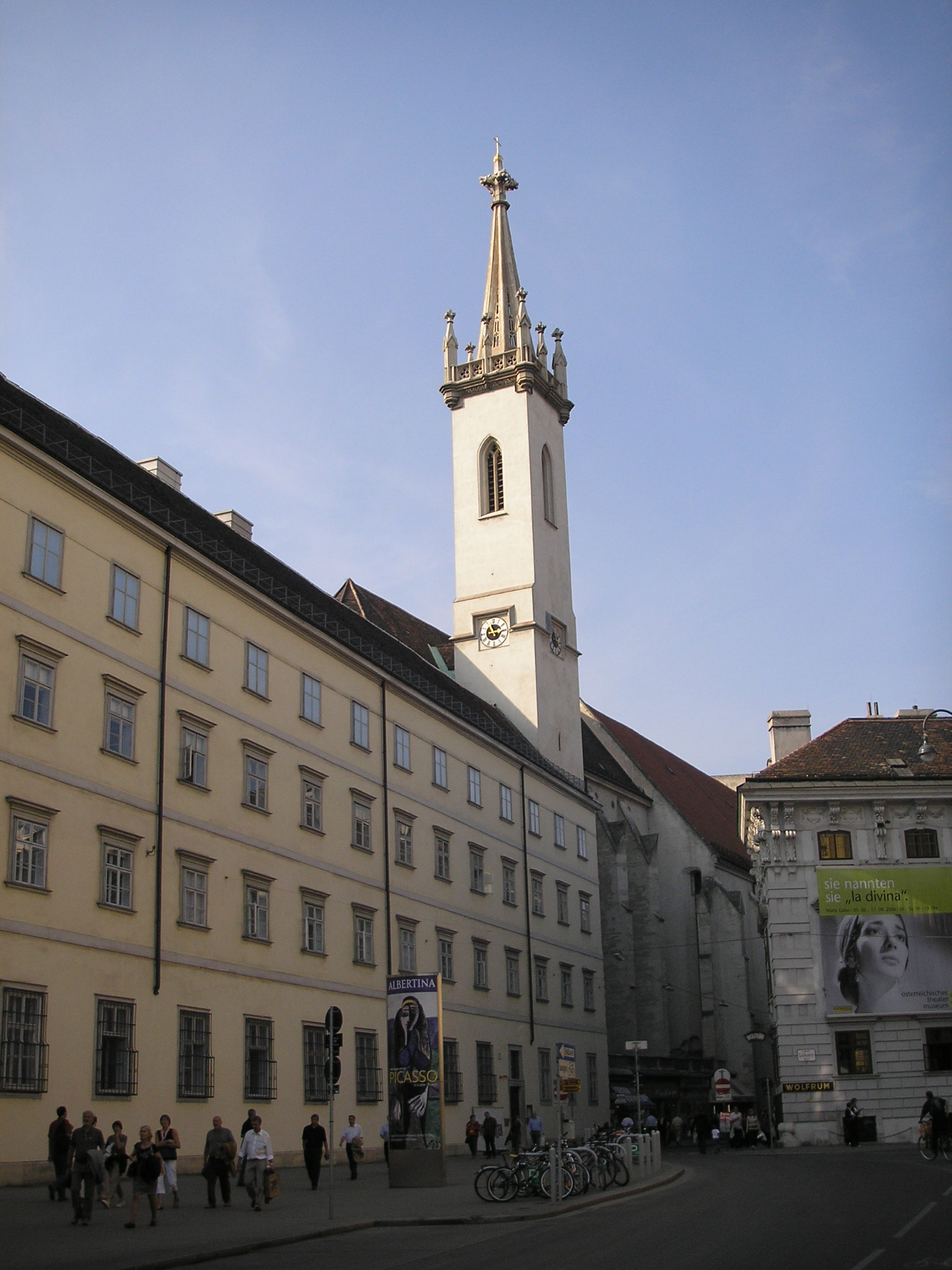 Image of the Augustinerkirche in Vienna.